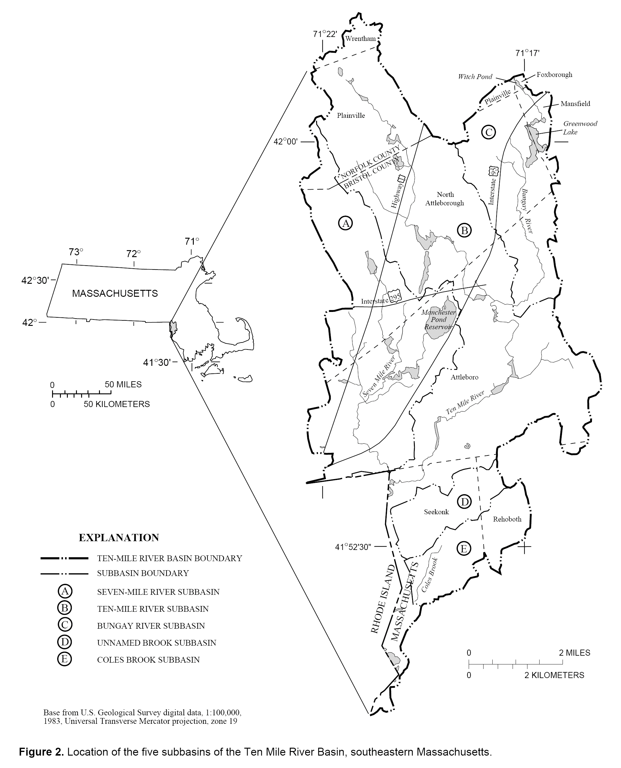 Diagram of the Ten Mile River water basin, southeastern Massachusetts, USA.